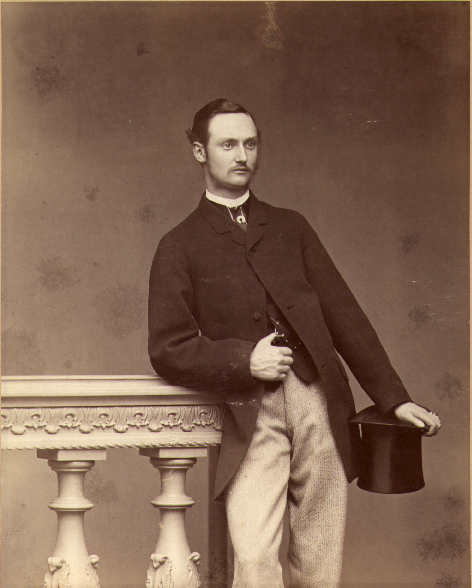 Crown Prince Frederick (VIII) of Denmark (1843-1912)